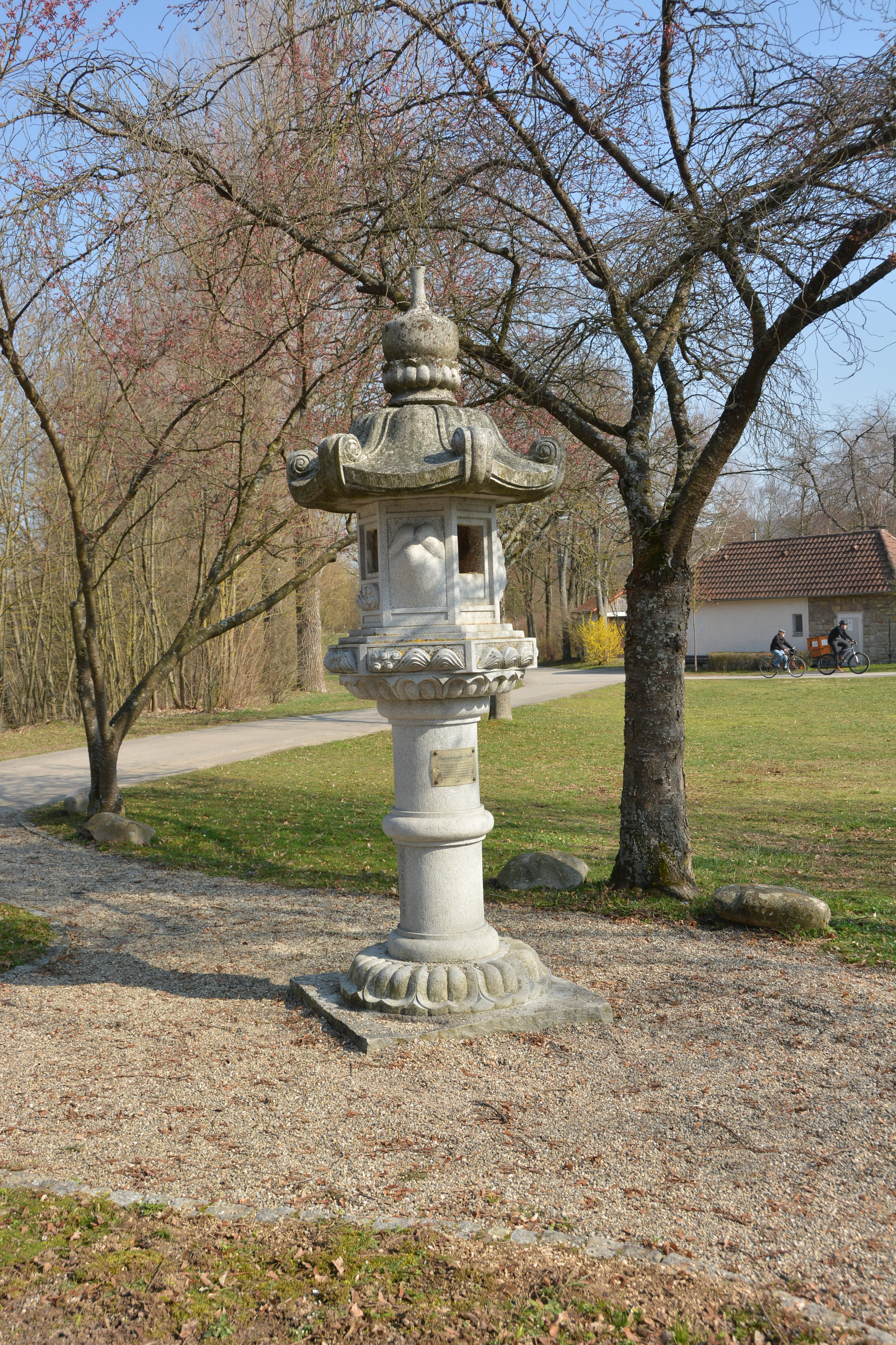 Japanese stele, Bad Mergentheim, Germany, Japanese stone lantern, a guest gift from the city of Isawa